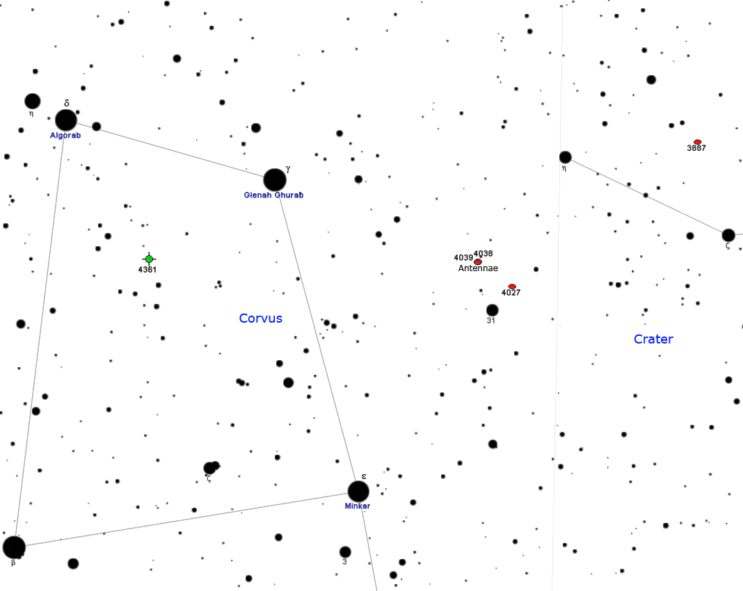 map of Antennae Galaxies